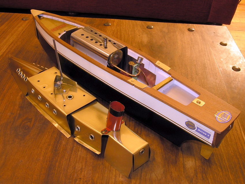 The photograph shows a hand built Hobbies Arrow built to commercially available plans, housing a Mamod ME2 power plant.